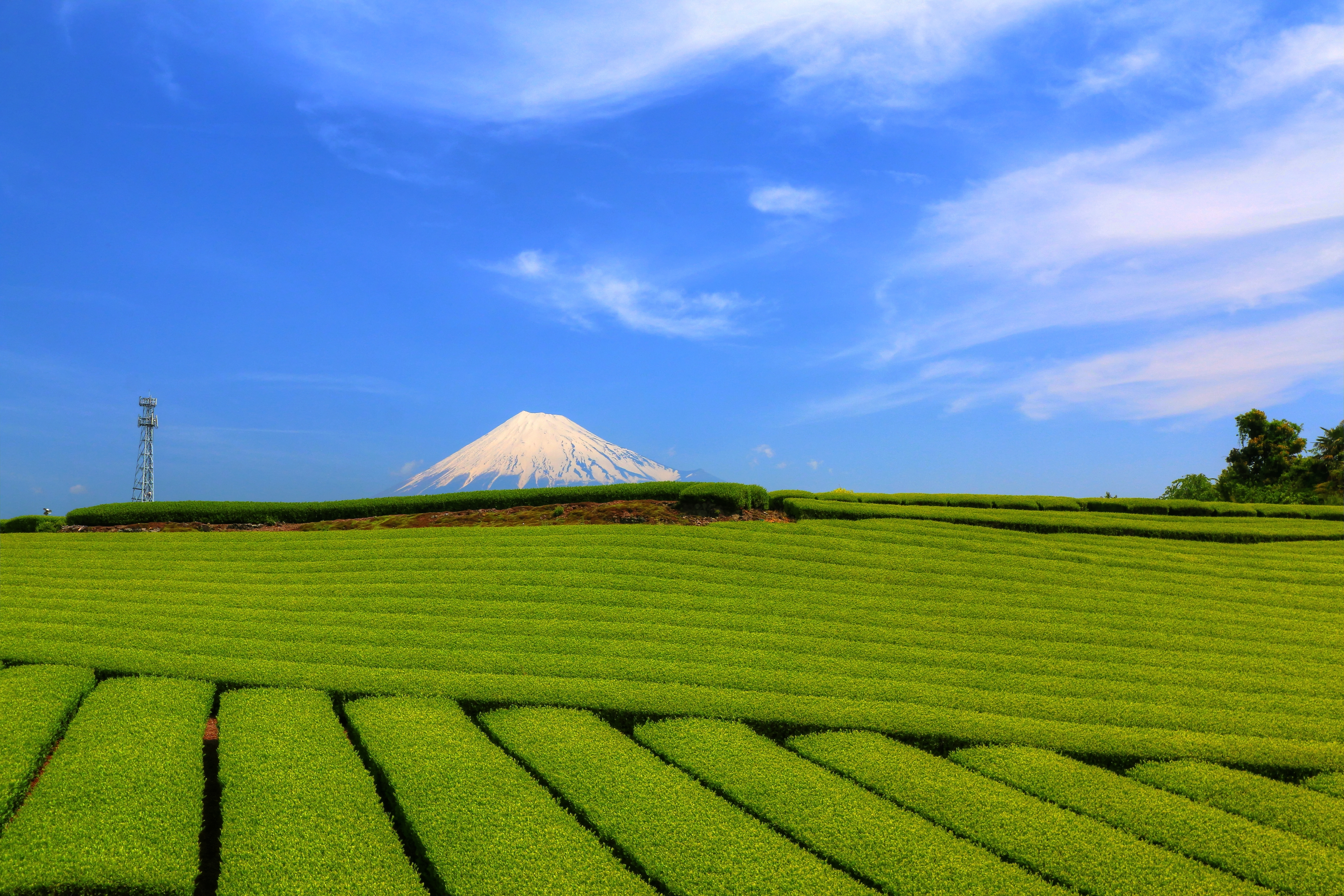 Tea plantation in Fuji, Shizuoka Prefecture, Japan.